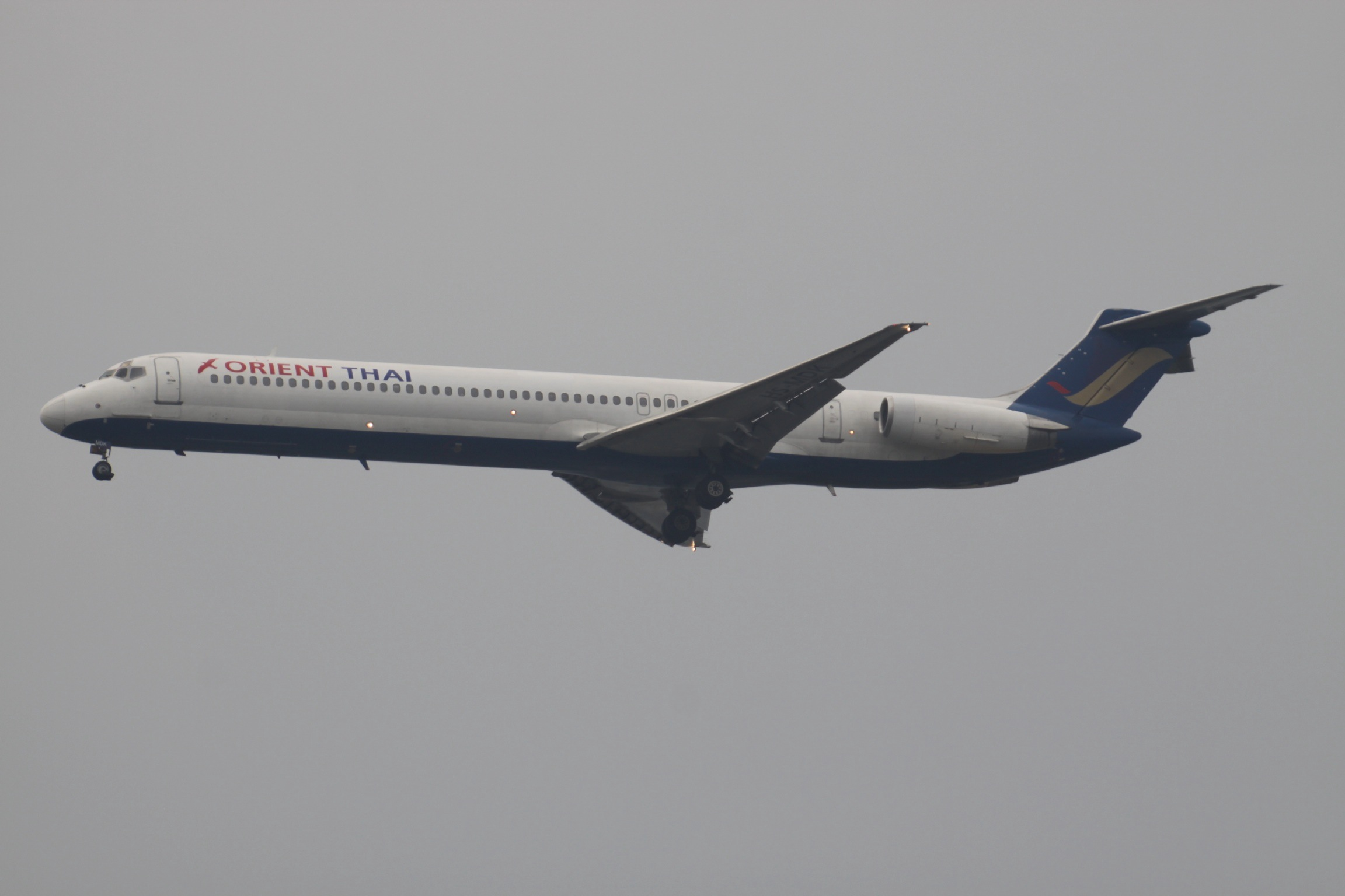 At Bangkok Suvarnabhumi International Airport